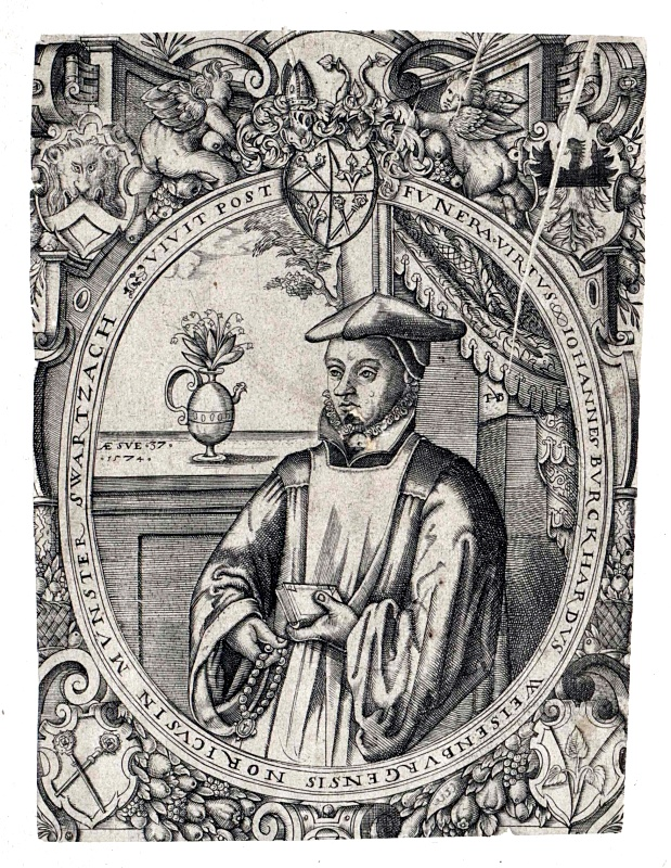 Johannes IV. Burckhardt (1538-1598) Abt des Benediktinerklosters Münsterschwarzach